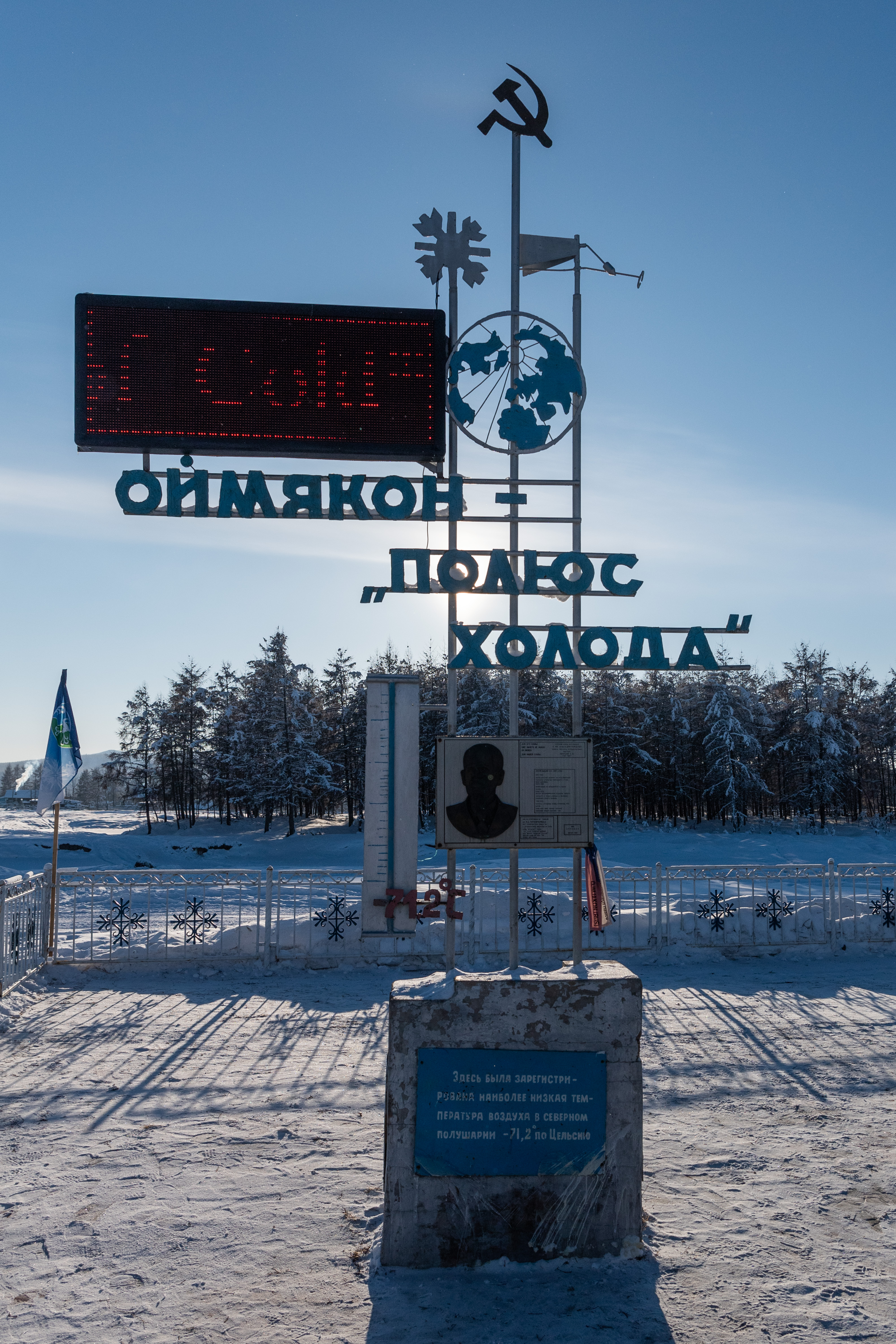 Oymyakon, Sakha Republic, Russia